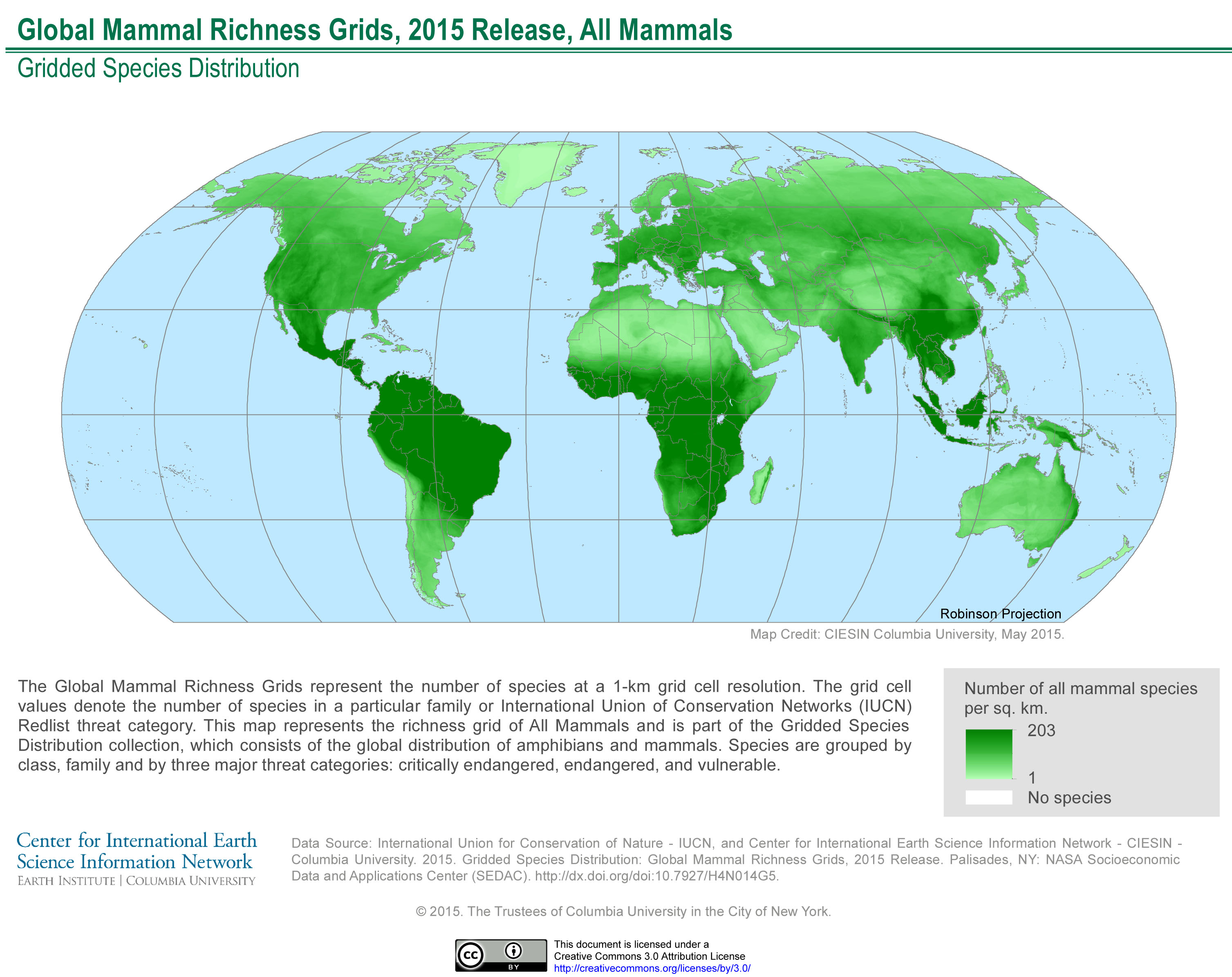 The Global Mammal Richness Grids represent the number of species at a 1-km grid cell resolution. The grid cell values denote the number of species in a particular family or International Union of Conservation Networks (IUCN) Redlist threat category. This map represents the richness grid of All Mammals and is part of the Gridded Species Distribution collection, which consists of the global distribution of amphibians and mammals. Species are grouped by class, family and by three major threat categories: critically endangered, endangered, and vulnerable. See more information at .